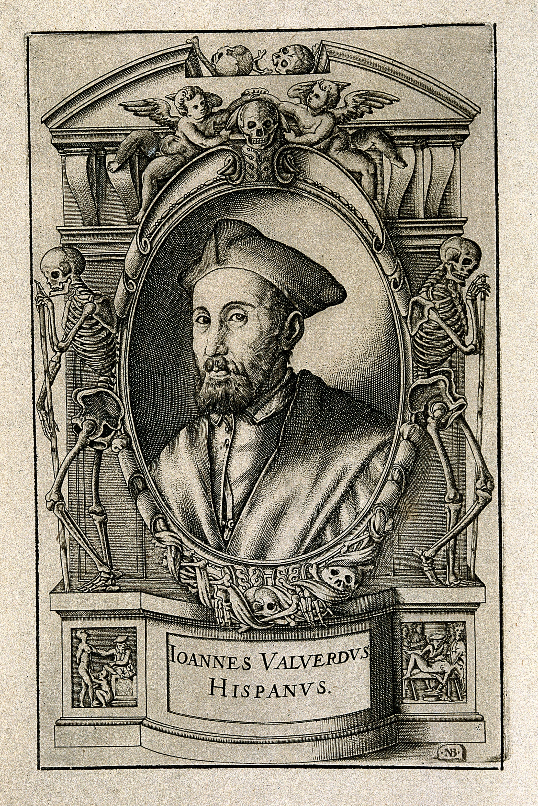 Juan Valverde de Hamusco. Line engraving by N. Beatrizet, 1589. Iconographic Collections Keywords: portrait prints; engravings; Juan Valverde; Nicolas Beatrizet